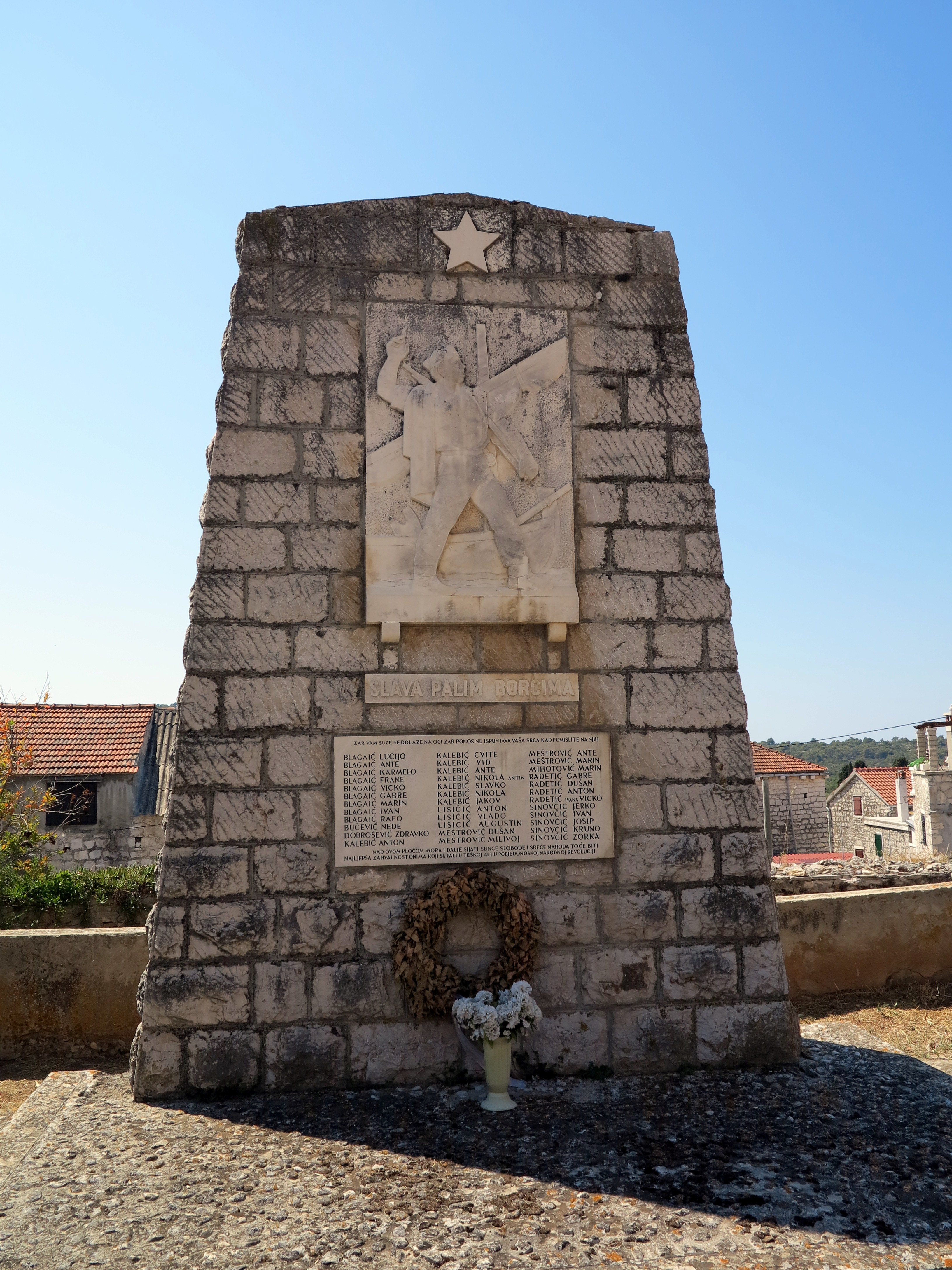 Donje Selo on the island Šolta / Croatia / Adriatic Sea. View to the west.